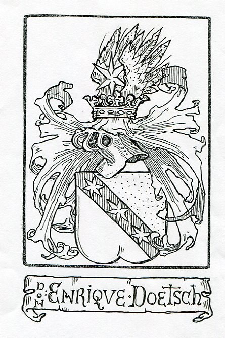 Ex Libris of Henry (Enrique) Doetsch, paper and ink.